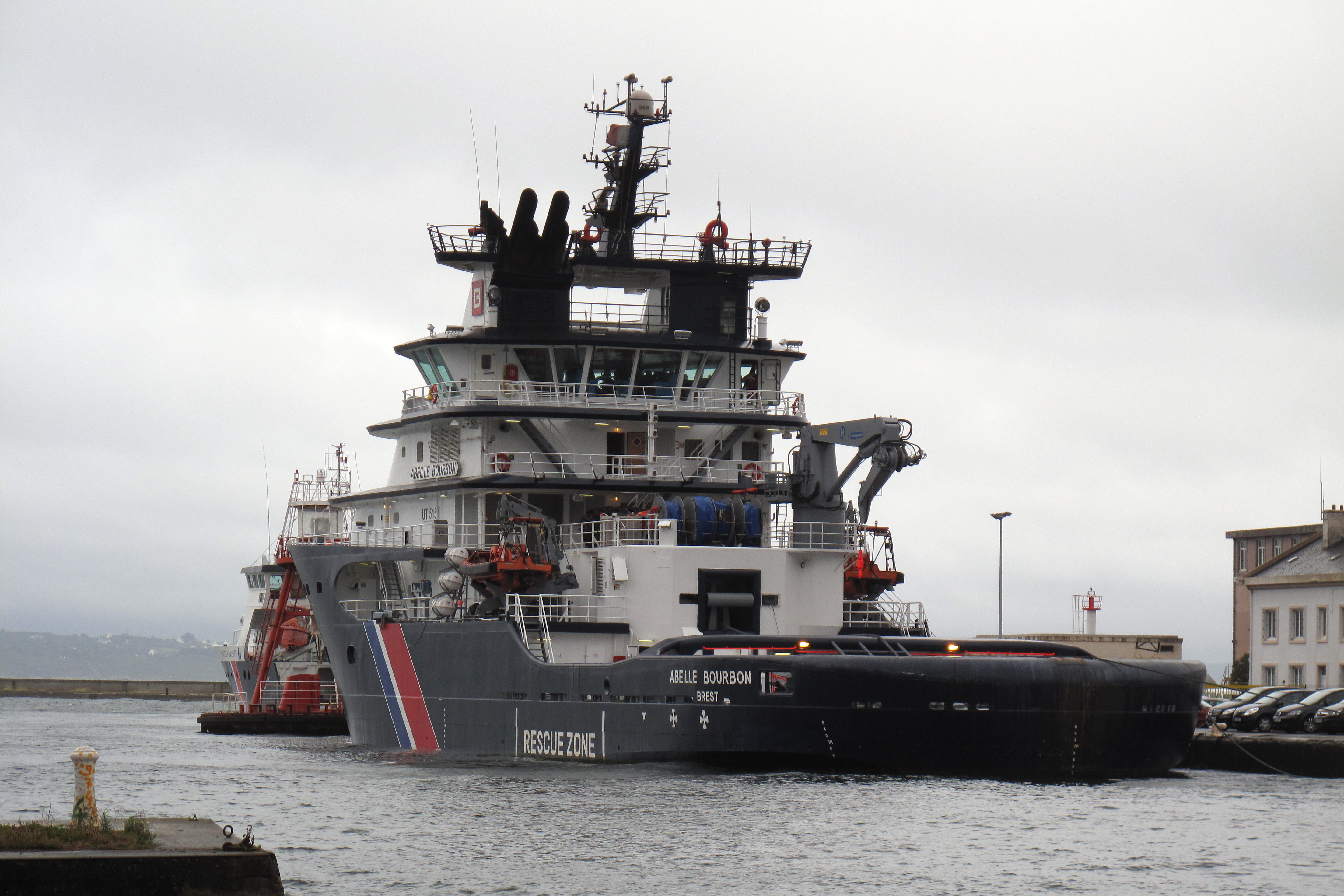 French oceanic tug Abeille Bourbon in Brest harbour